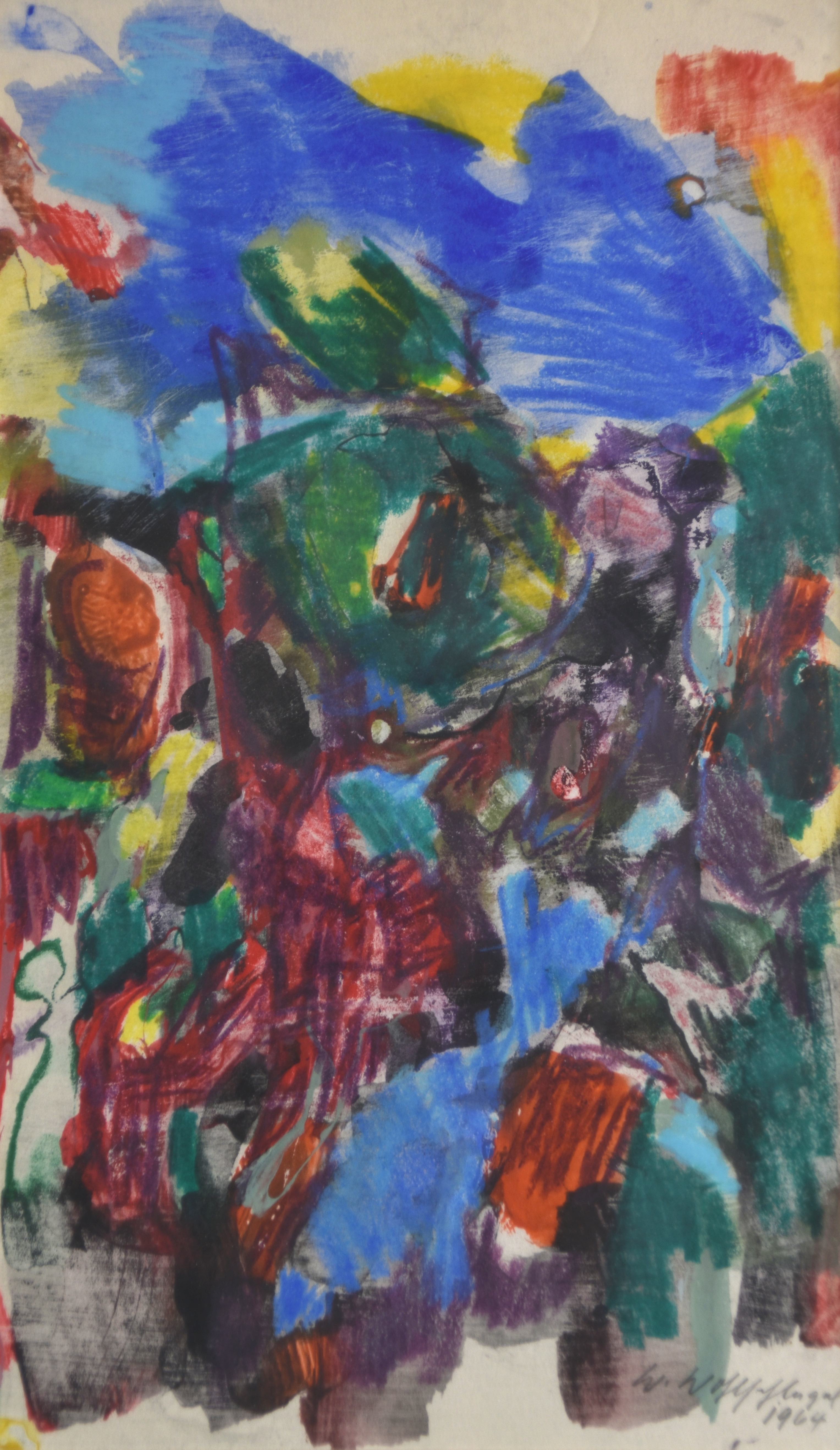 gouache, 1964, by Walter Wohlschlegel